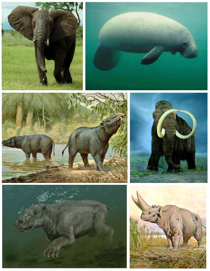 2 living and 4 fossil species of Tethytheria : African Elephant, Caribean Manatee, Moeritherium, Wooly Mammoth, Paleoparadoxia and Arsinoitherium.